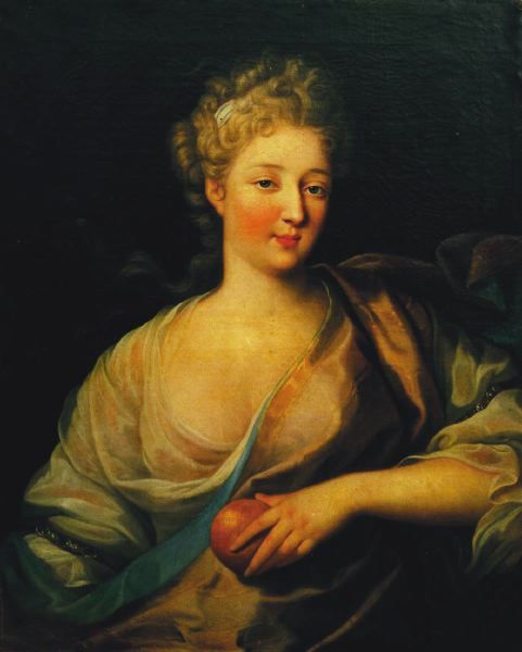 Louise-Julie-Constance de Rohan, comtesse de Brionne as Venus or Helen of Troy